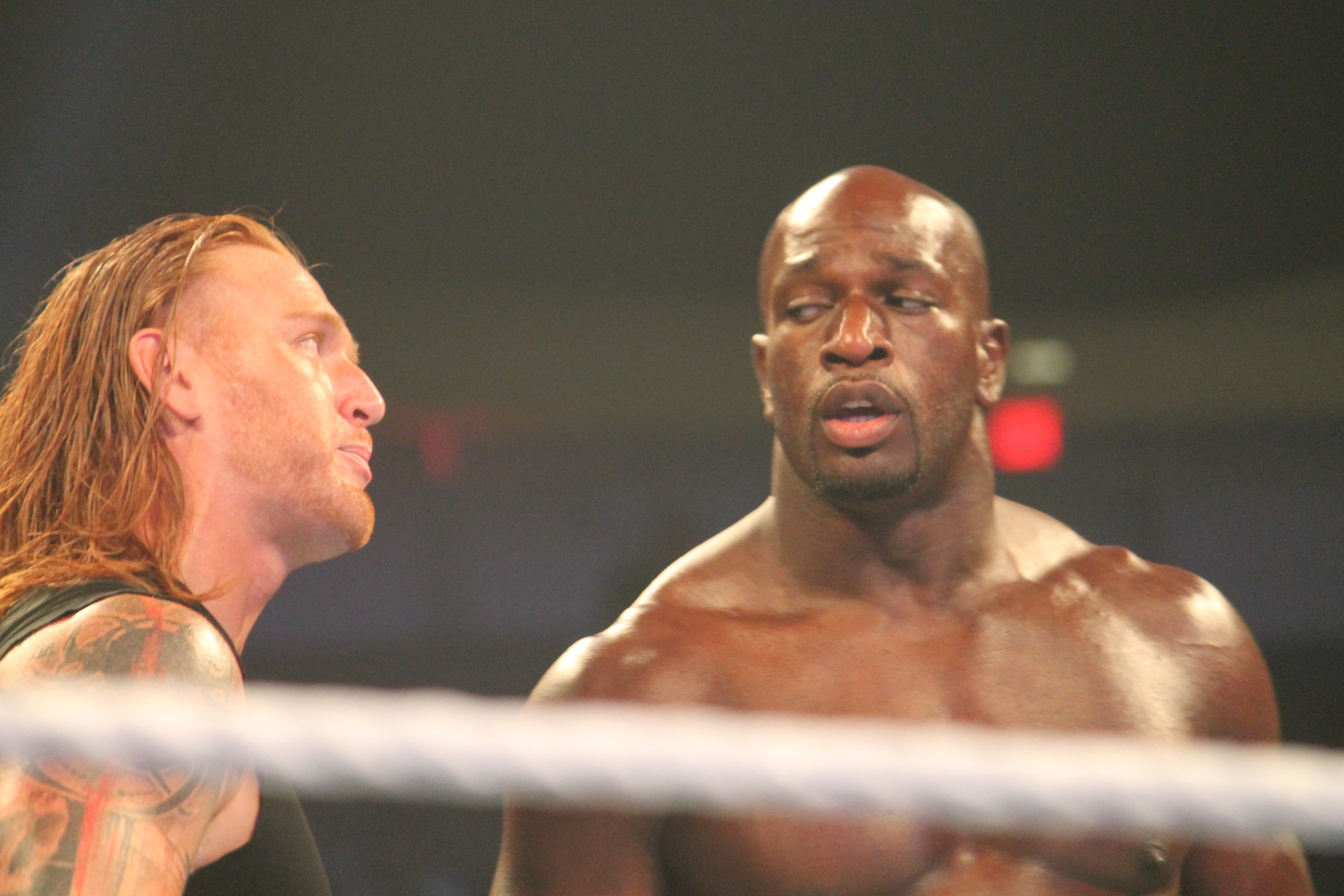 Slater Gator (Heath Slater and Titus O'Neil) at a SmackDown/Main Event taping on September 16, 2014.